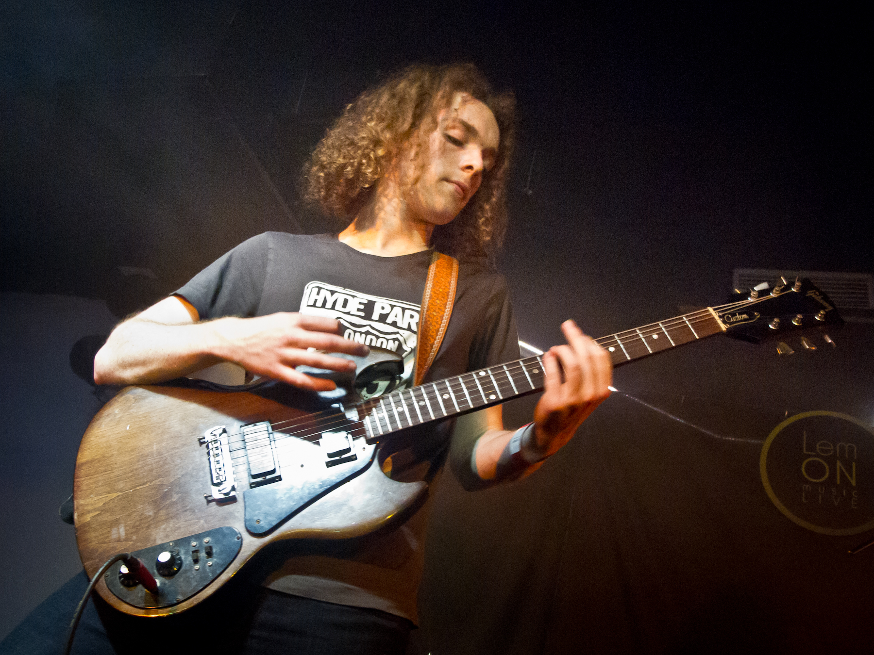 Blues Pills' guitarist Dorian Sorriaux live in Madrid in 2014.